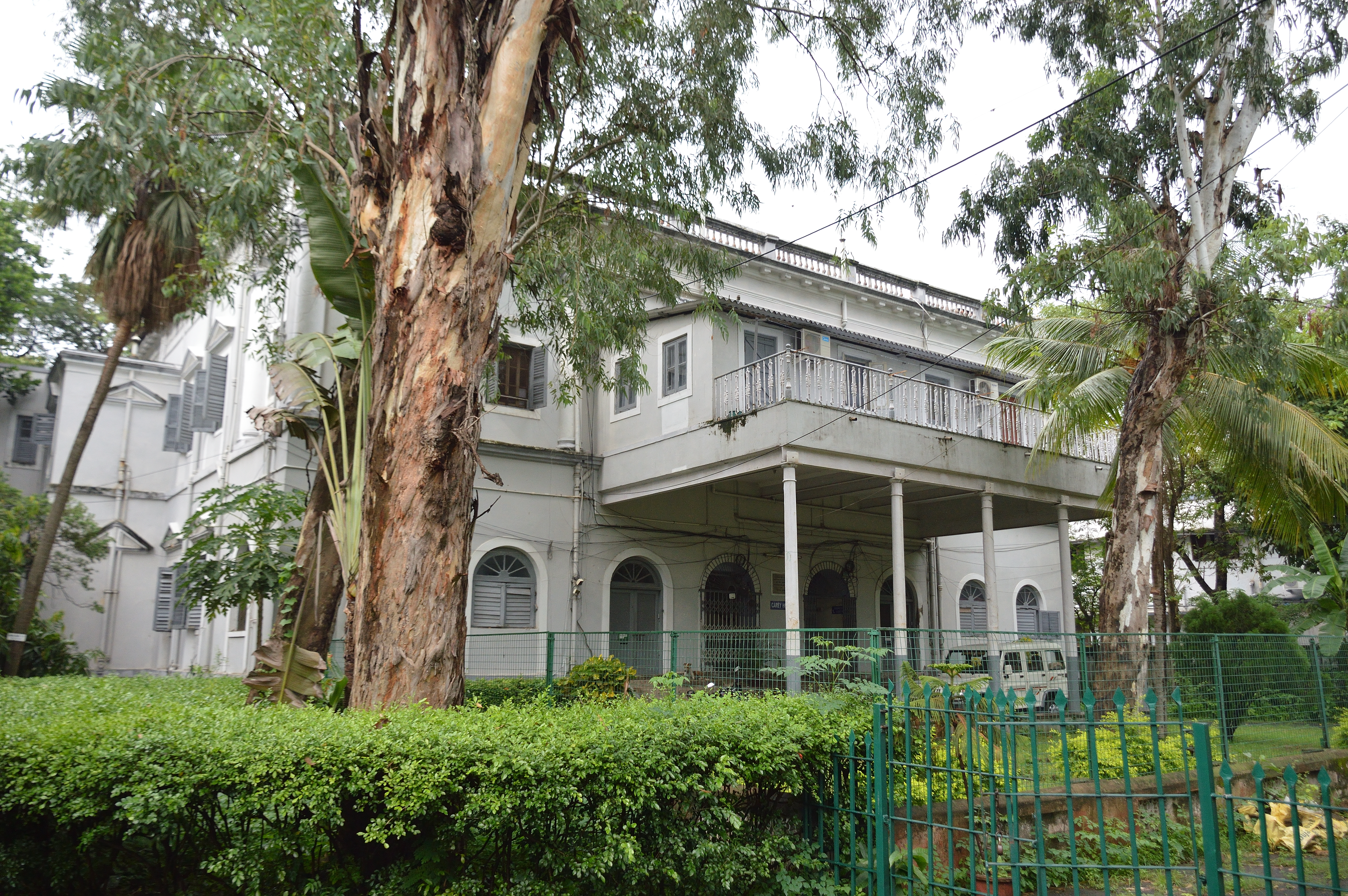 William Carey (17 August 1761 – 9 June 1834), the British Christian missionary, Particular Baptist minister, translator, social reformer and cultural anthropologist who founded the Serampore College and the Serampore University, the first degree awarding University in India, lived here at the Serampore College Campus, Hooghly.